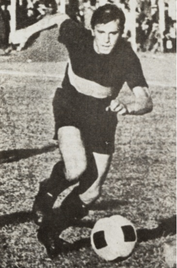 This is a photograph of Omar Larrosa during his time with Boca Juniors in Argentina. He played for the club between 1967 & 1970.